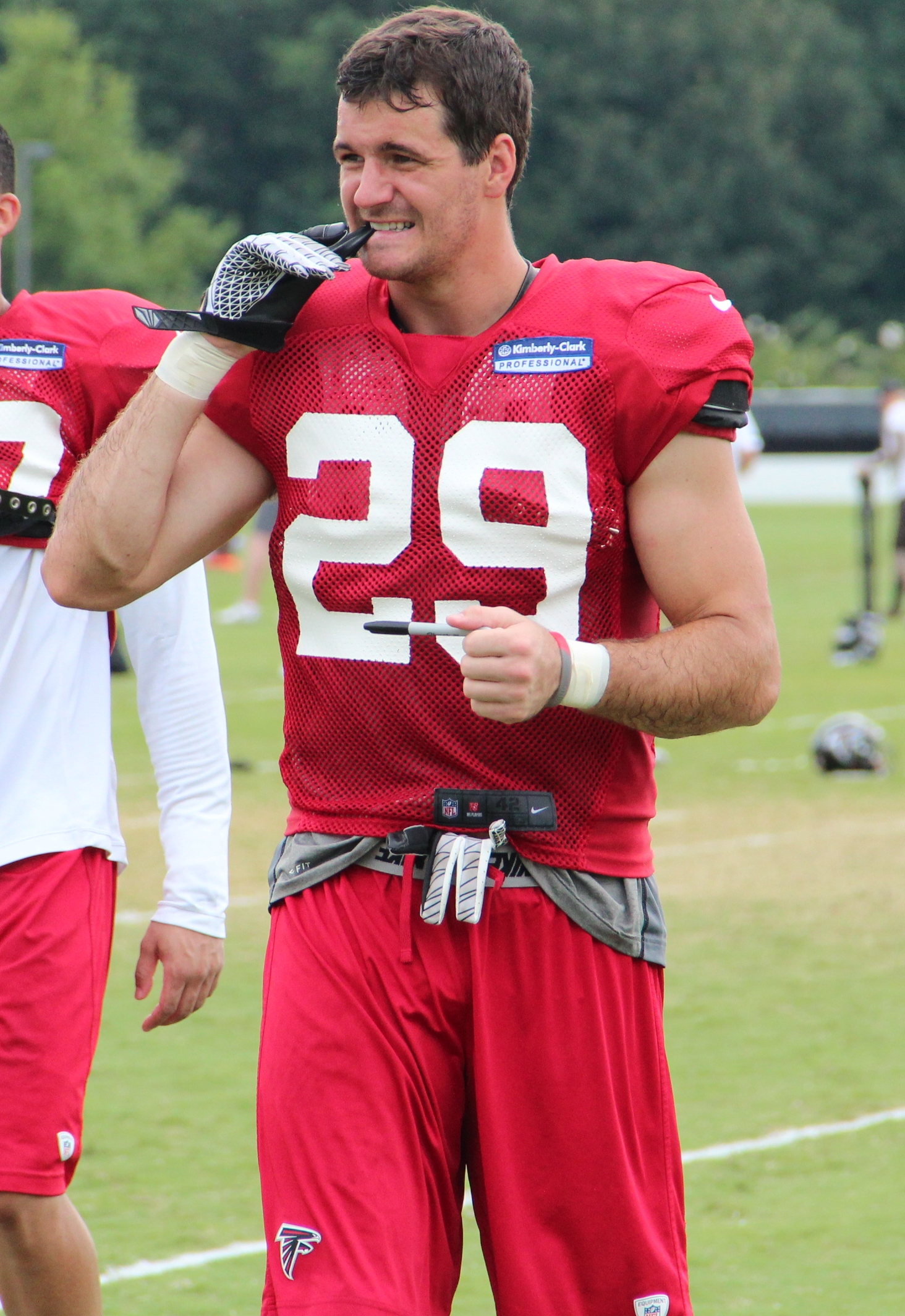 Shann Schillinger in 2013